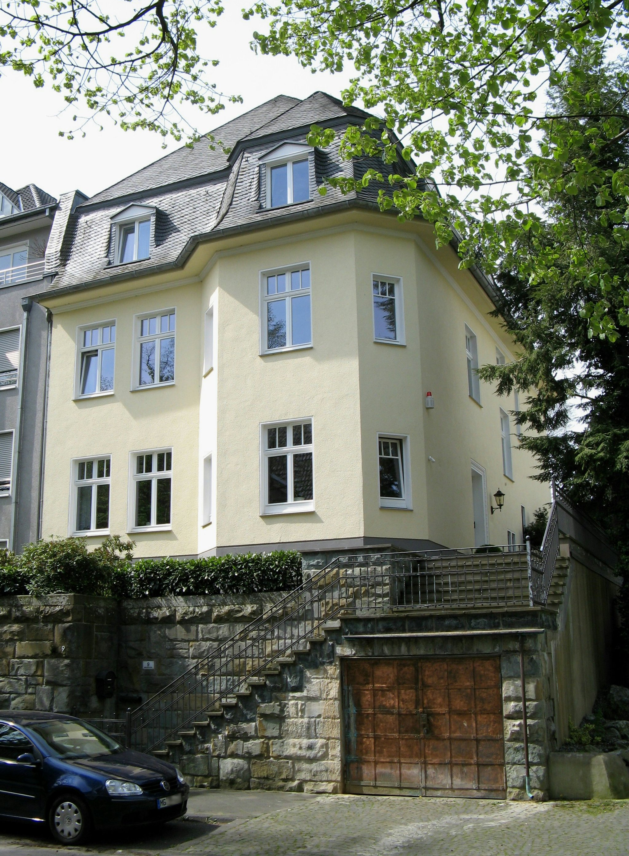 House, Mozartstrasse 9, Mönchengladbach, Germany. The philosopher Hans Jonas (1903-1993) grew up here.